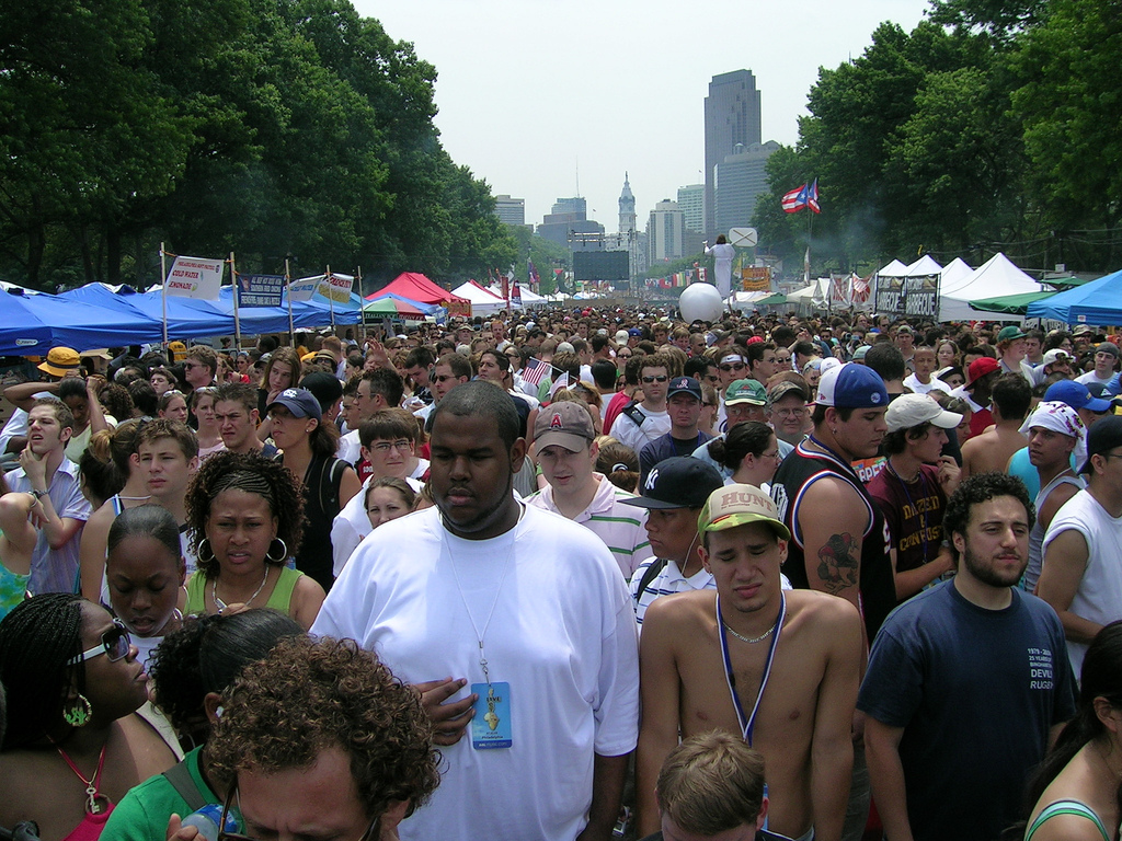 Live 8 Crowd, Philadelphia, PA Author: Aaron Kuhn